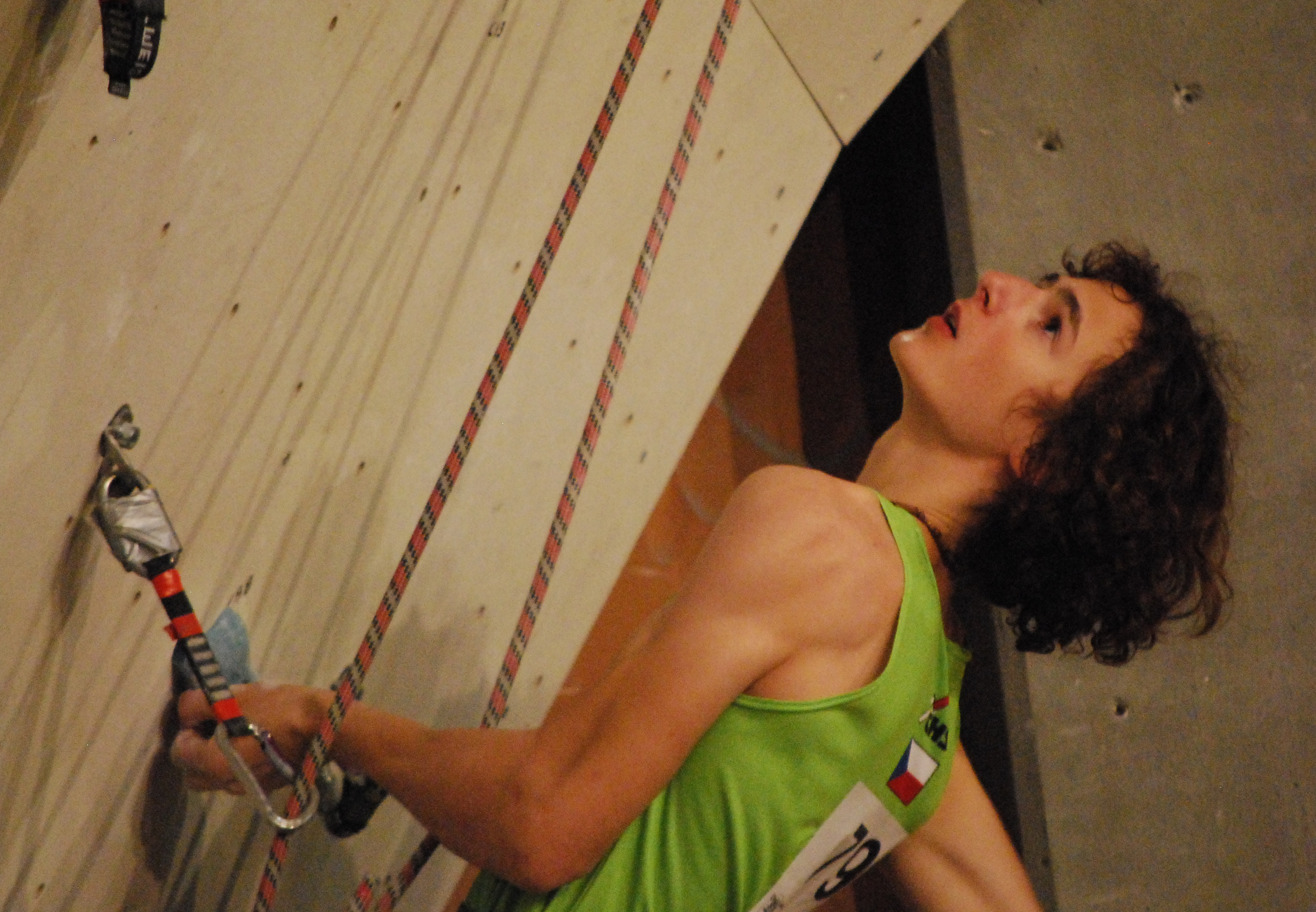 Adam Ondra, World Cup Imst 2009